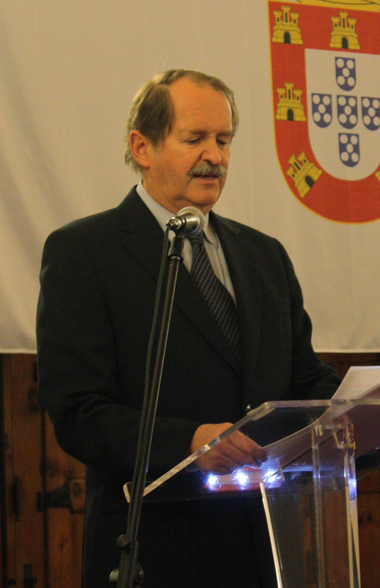 Jantar dos Conjurados.2008 029 (cropped and color corrected)